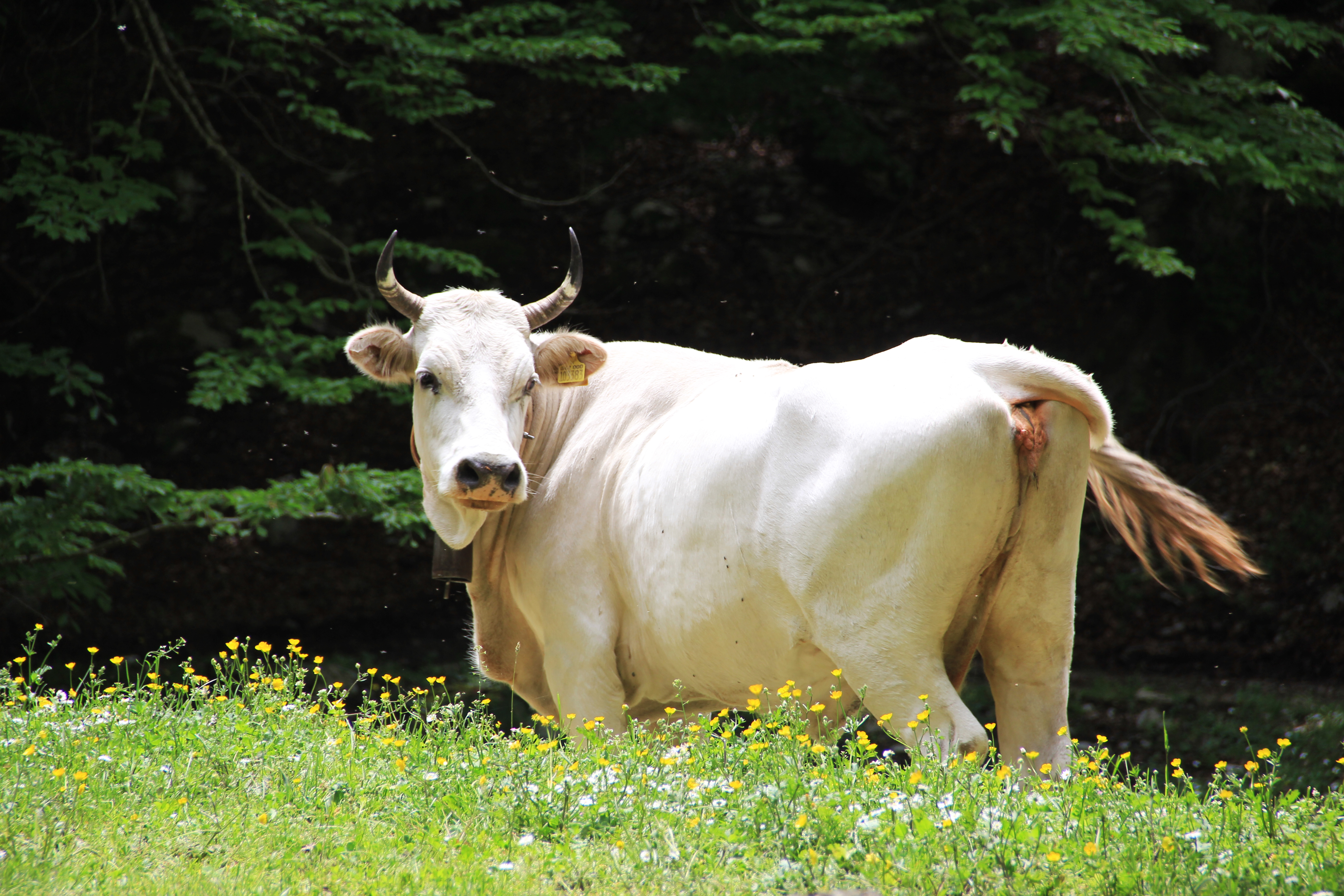 white cow